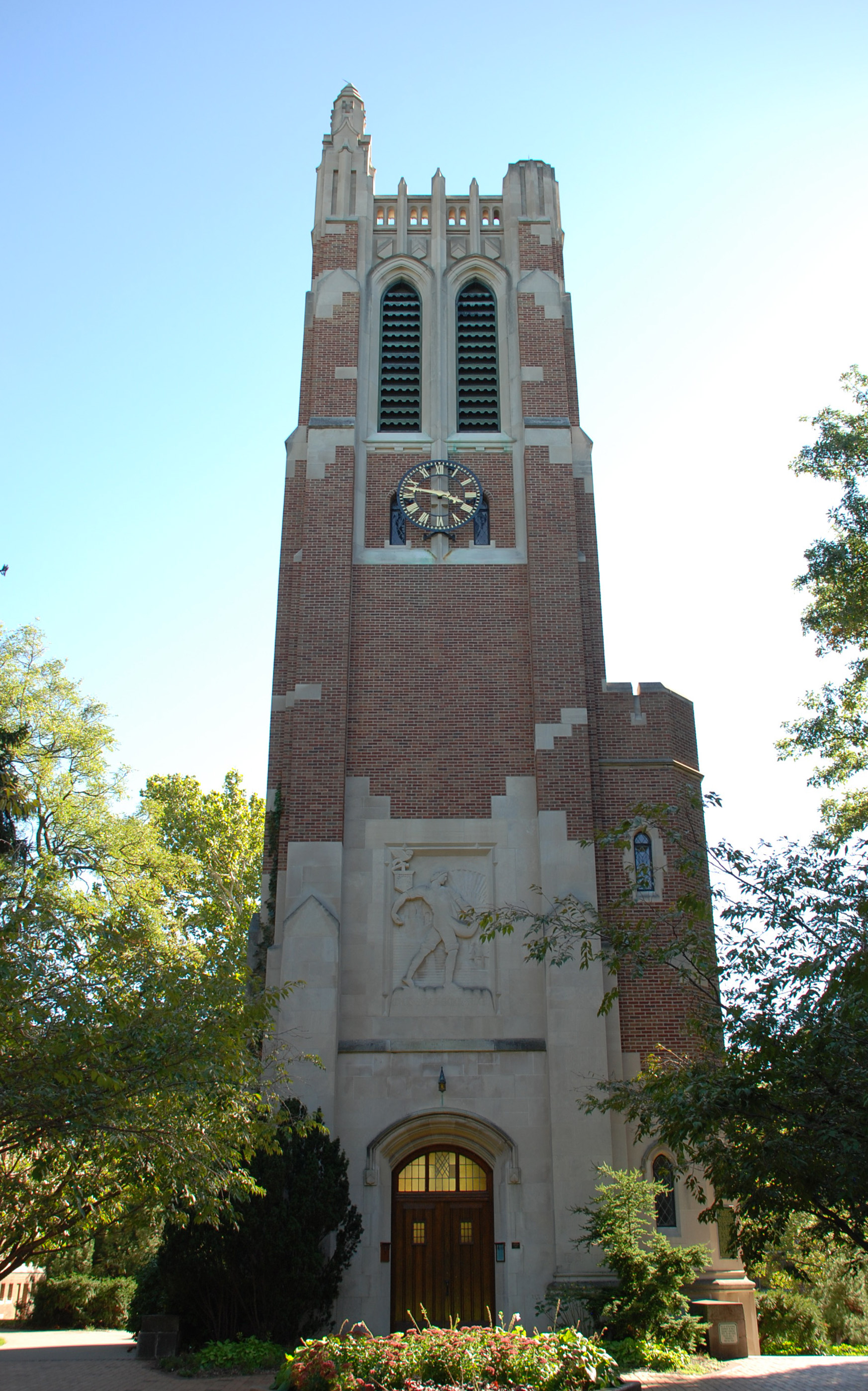 Beaumont Tower marks the site of the old College Hall at Michigan State University. This picture was taken on October 3rd, 2007 by myself and I hereby release it into the public domain.